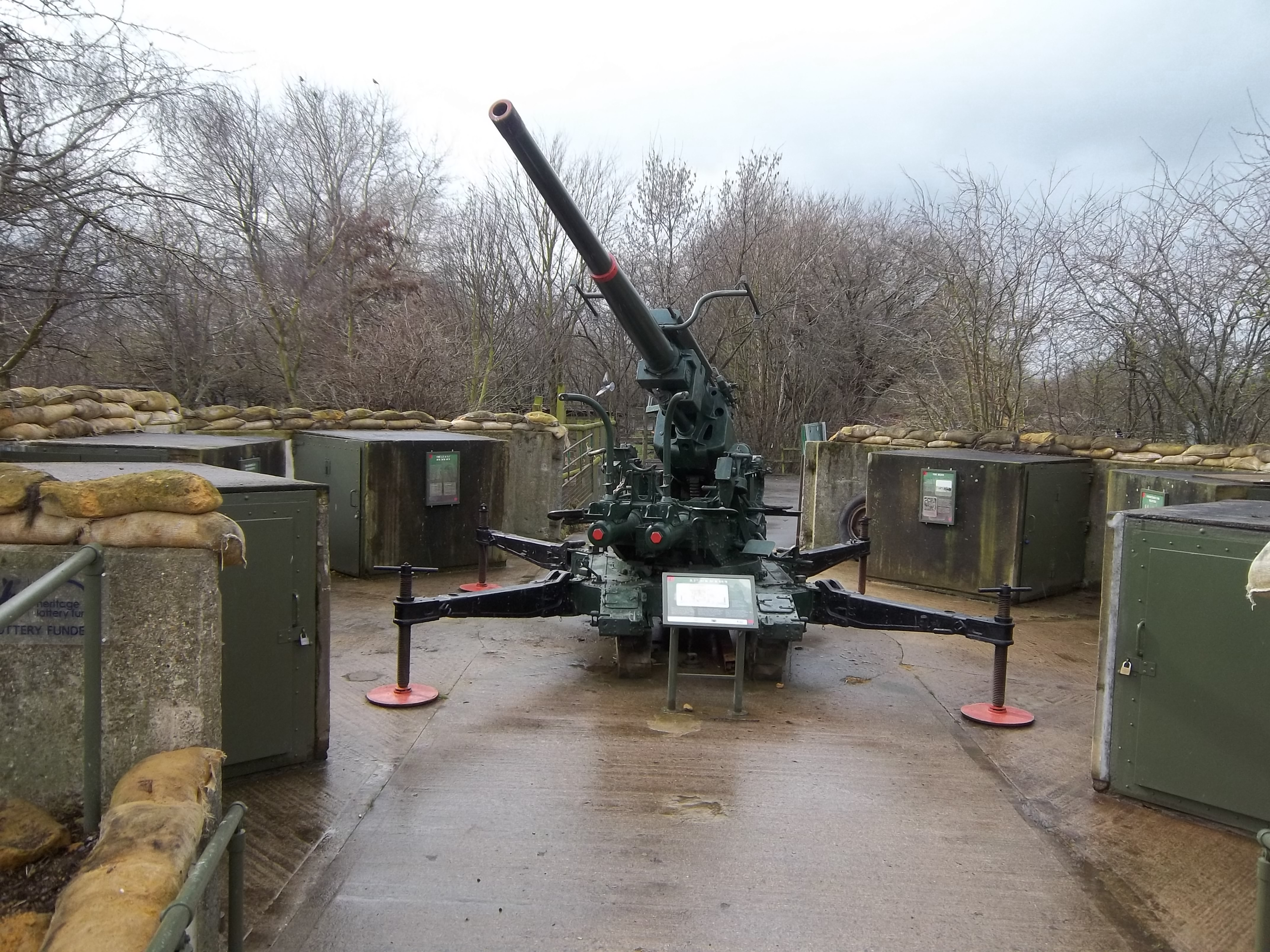 3.7 Anti Aircraft gun used during the Second World War, no based at gun emplacement at the Mudchute, Isle of Dogs